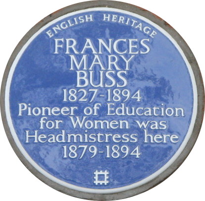 Blue plaque re Frances Mary Buss. The location of this date stone is shown in 1404448.